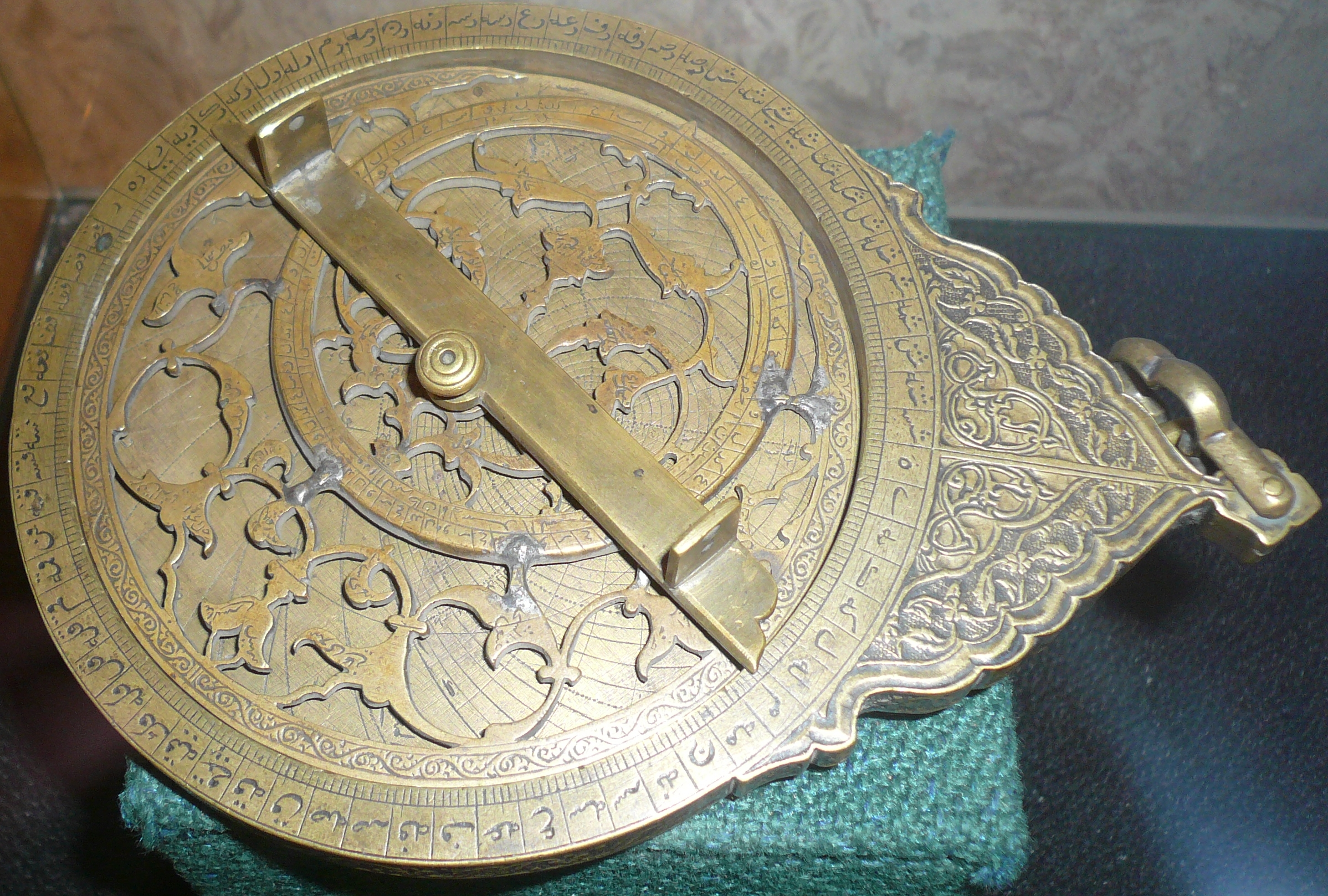 Astrolabe. XVII c. Bukhara